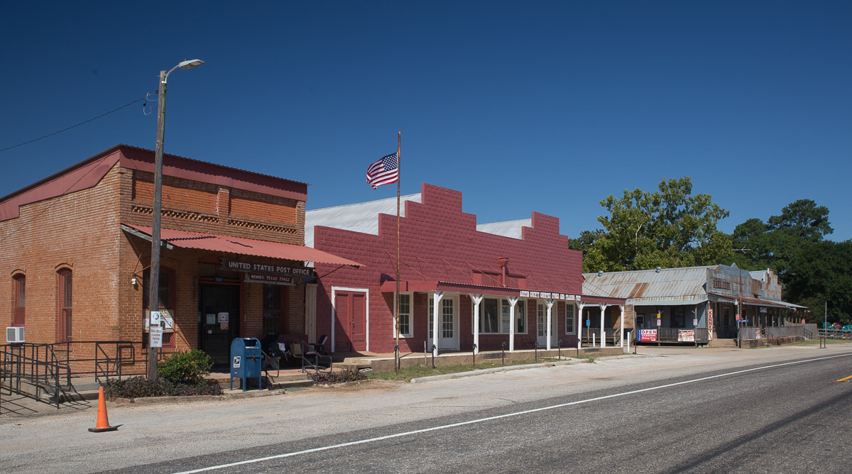 Historic post office in downtown Kenney, Texas